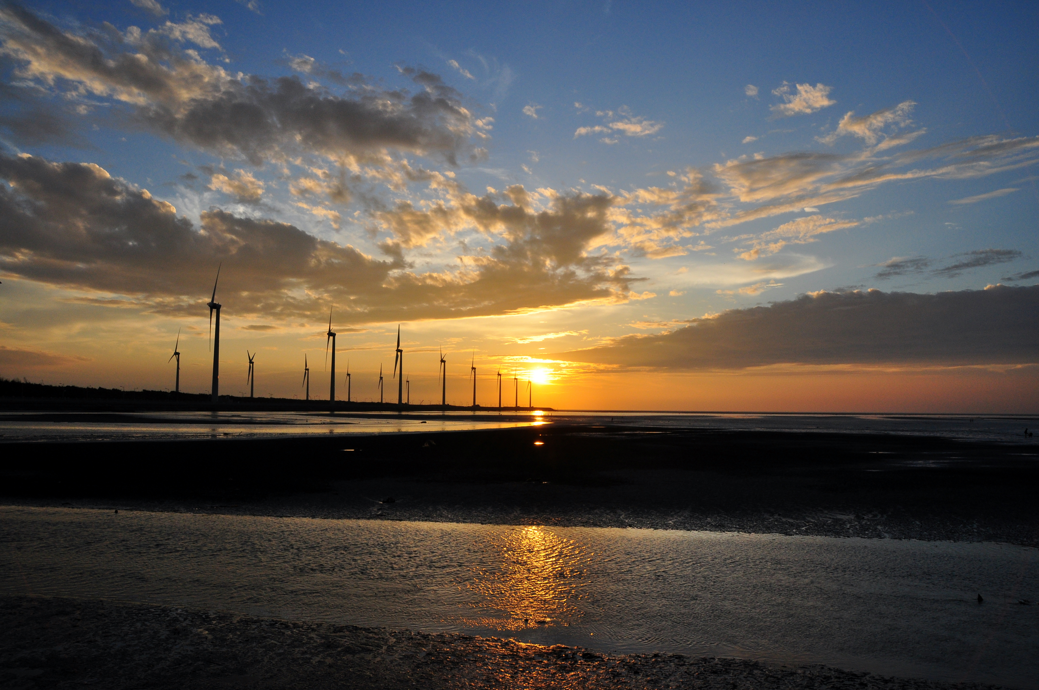 Sunset of Gaomei Wetland. 中文（台灣）: 高美溼地日落時分。